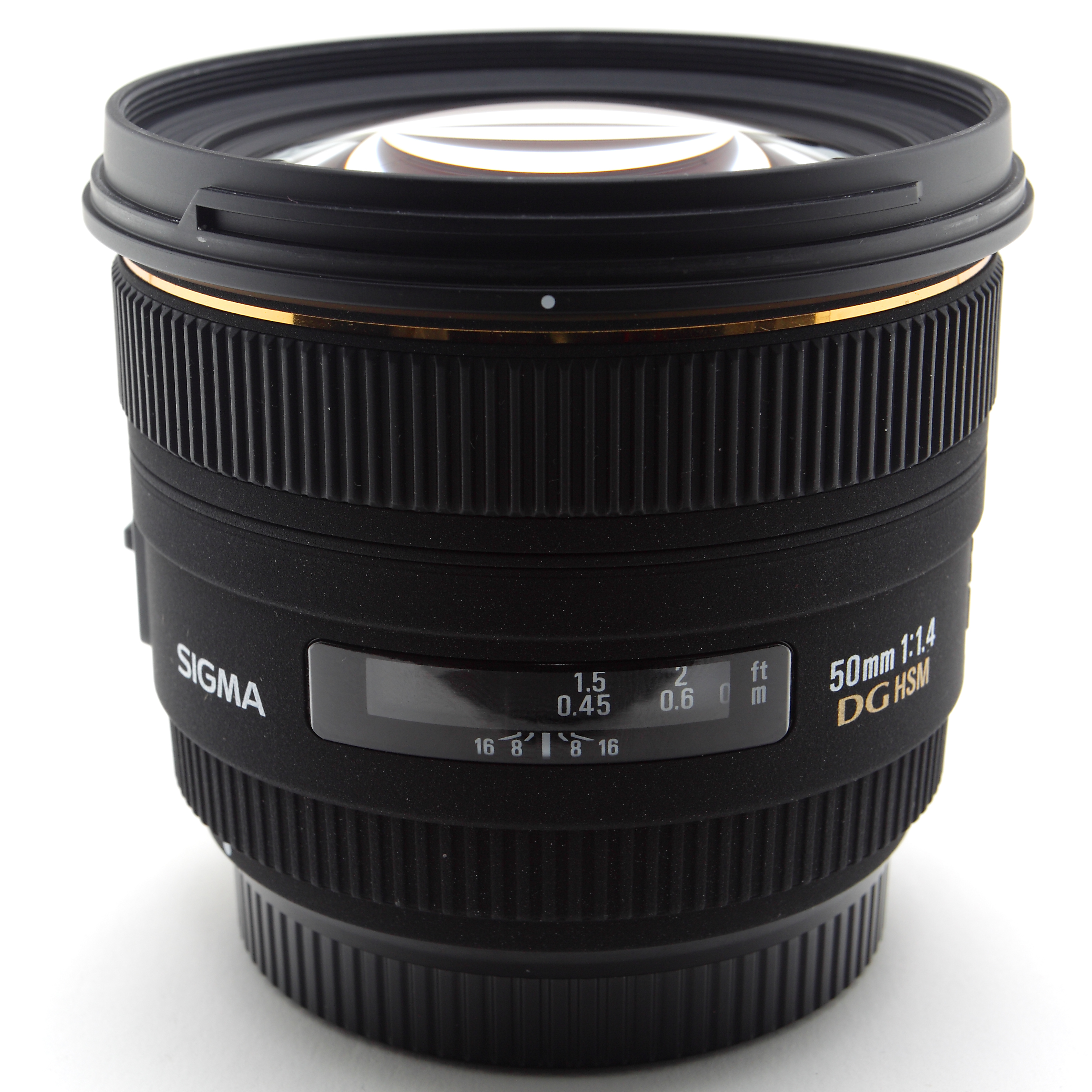 Side shot of the Sigma 50mm f1.4 EX DG HSM